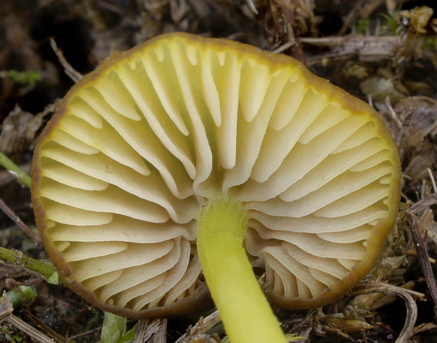 Mousepee Pinkgill (Entoloma incanum)